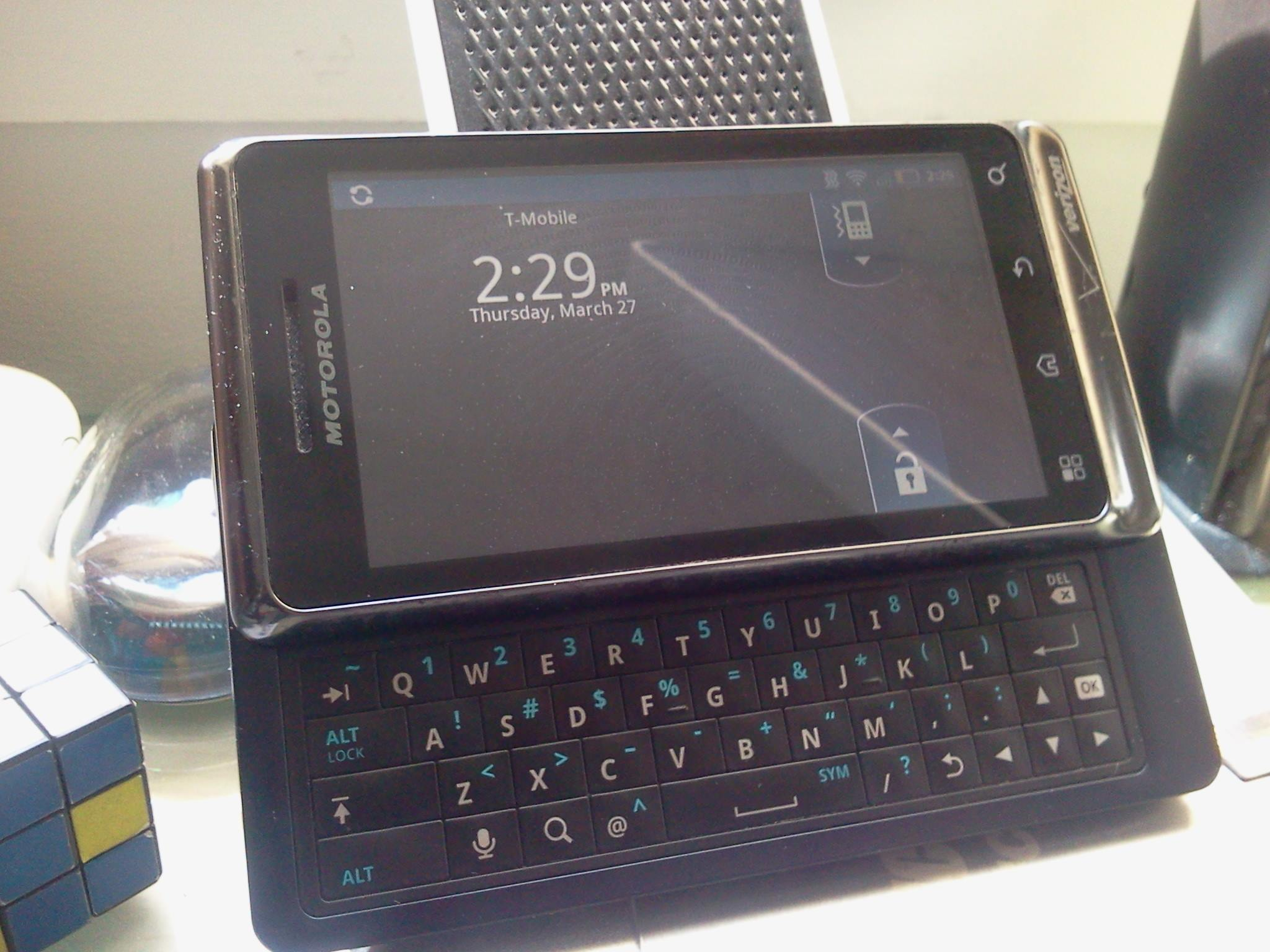 The Droid 2 Global, a cell phone by Motorola.